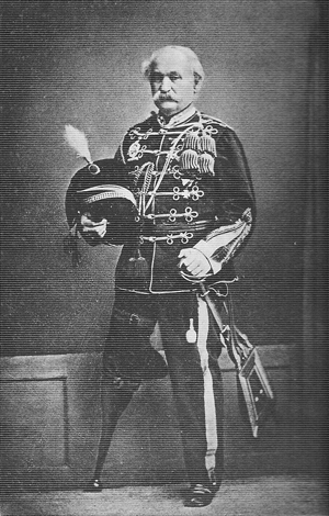 Count Menno David van Limburg Stirum